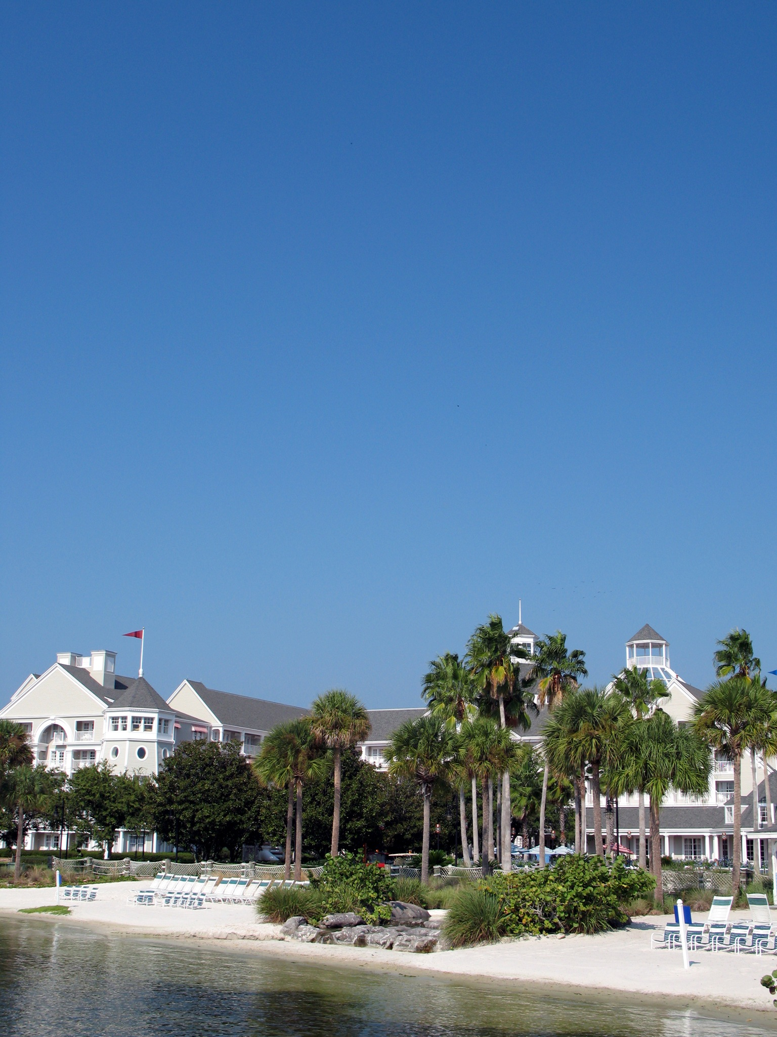 Side view of Disney's Yacht Club Resort